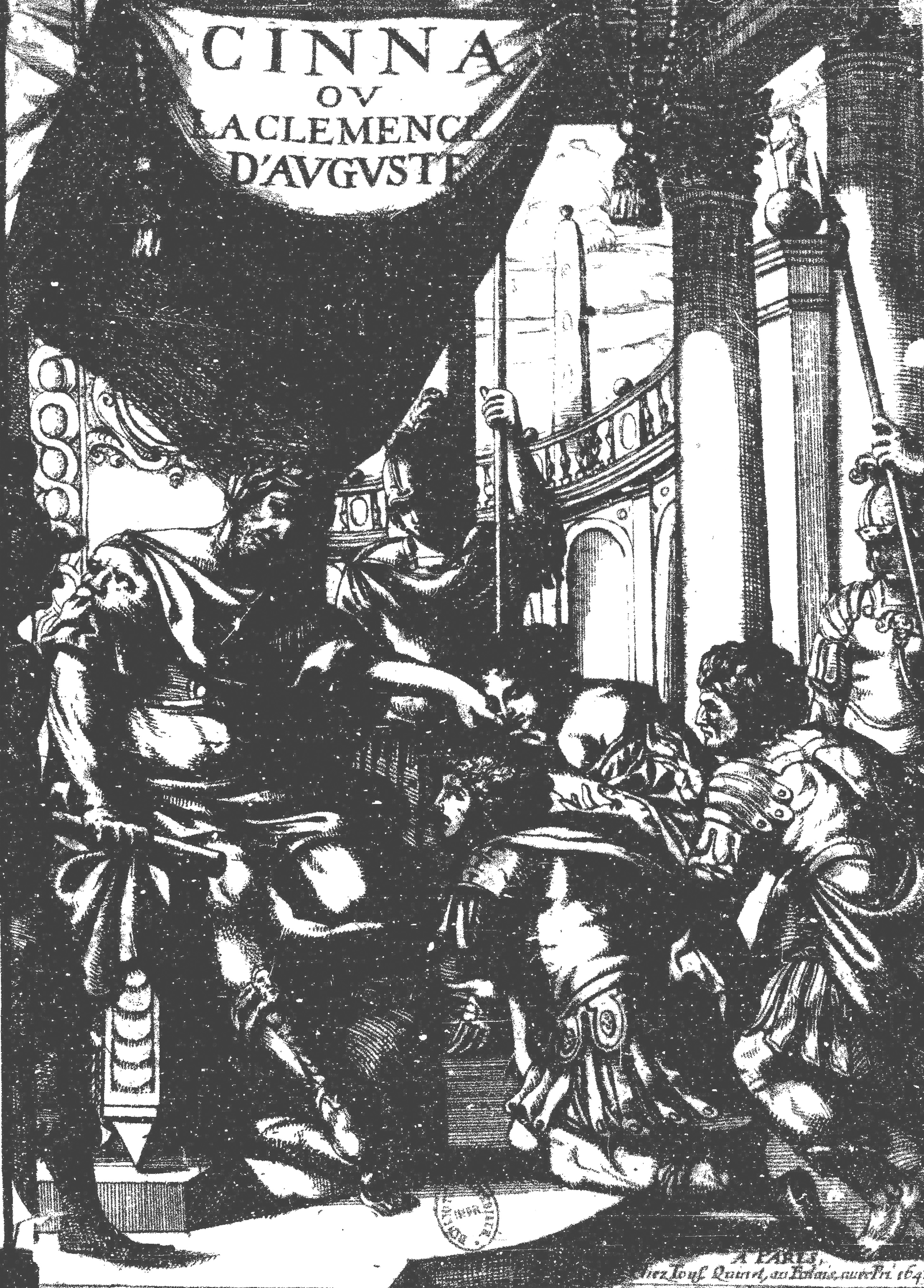 image from the 1643 edition of Cinna